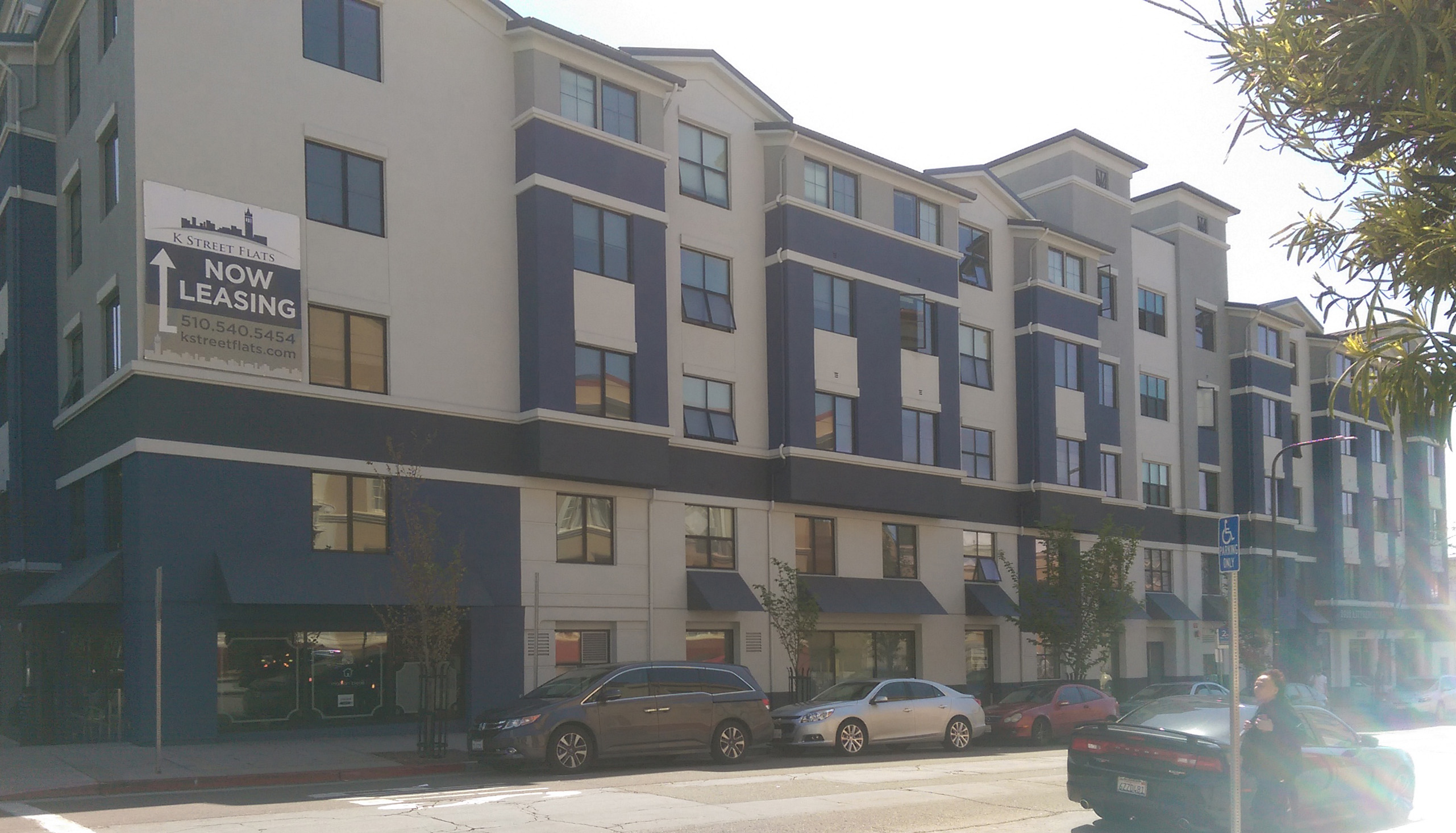 Berkeley, California - 2020 Kittredge Street